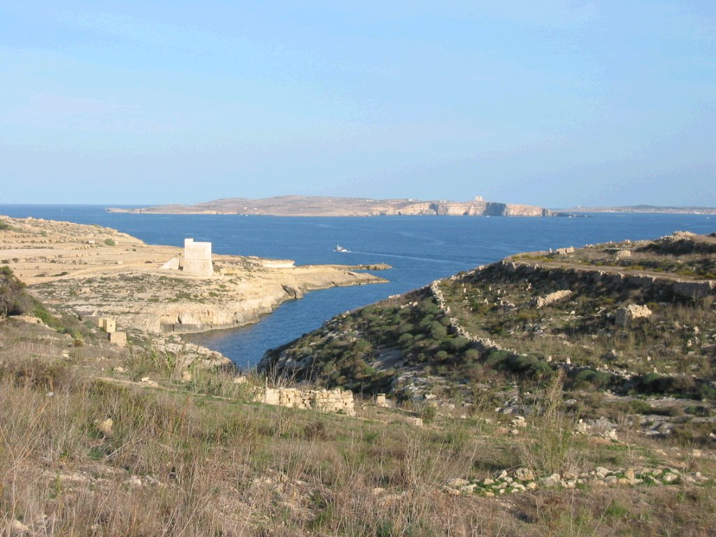 Mgarr Ix-Xini panorama - left, on Gozo, there is a watch tower, built in 1658 (so too late for enslaved Gozitans in 1551). Across the sea is the island Comino (with St Mary's Tower visible) and further right is the island of Malta.